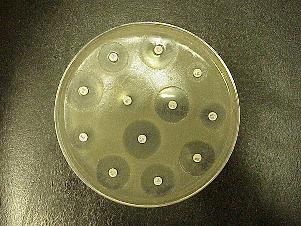 US govt site